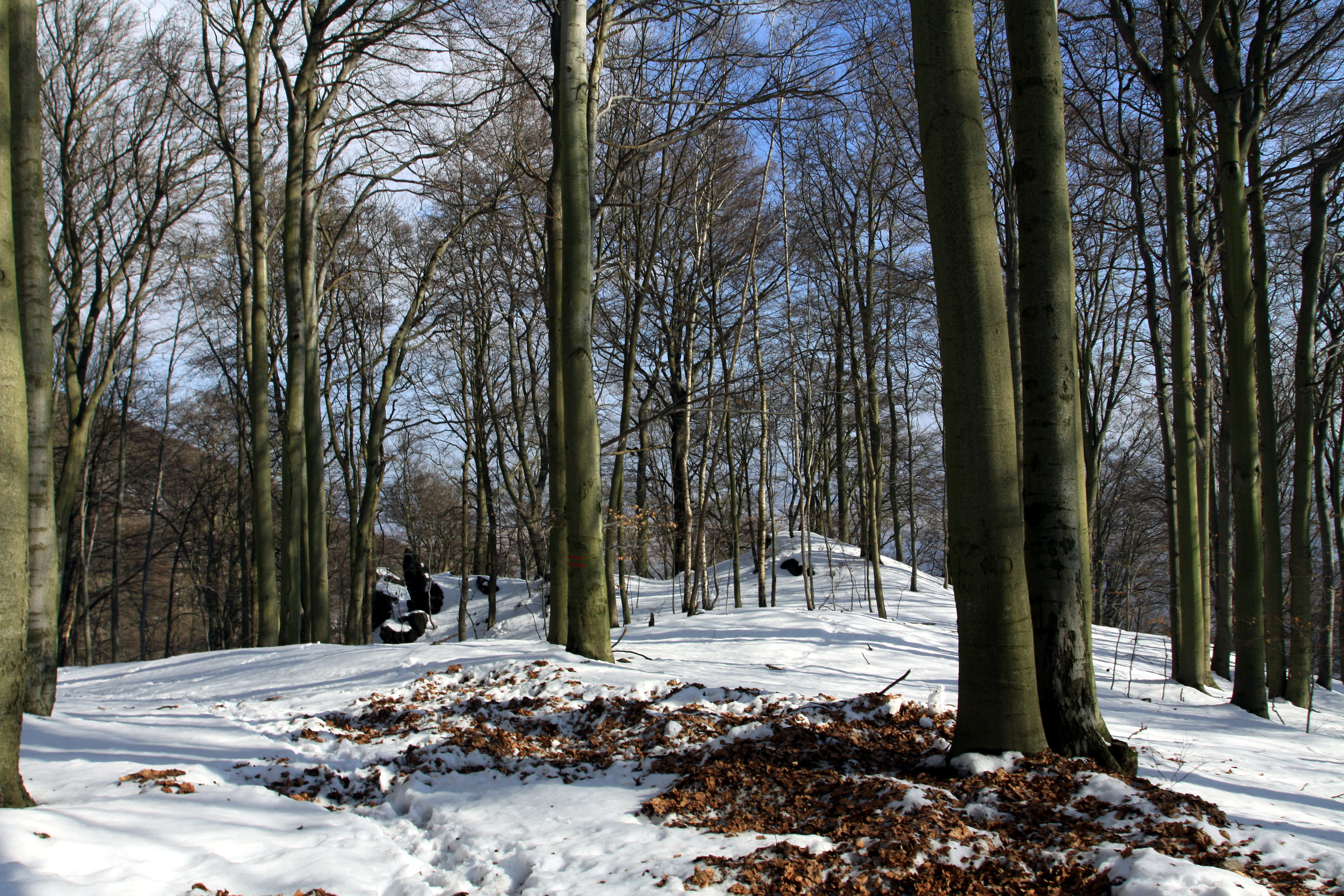 National nature reserve Jezerka near Horní Jiřetín in Most District, Czech Republic